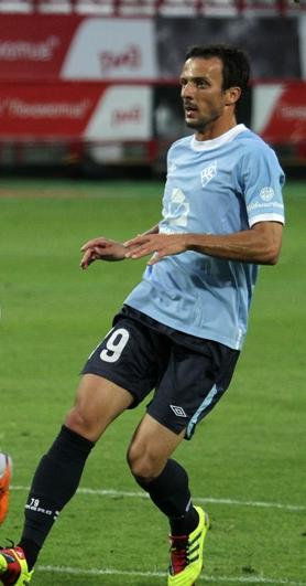 Nenad Đorđević playing for FC Krylia Sovetov Samara.